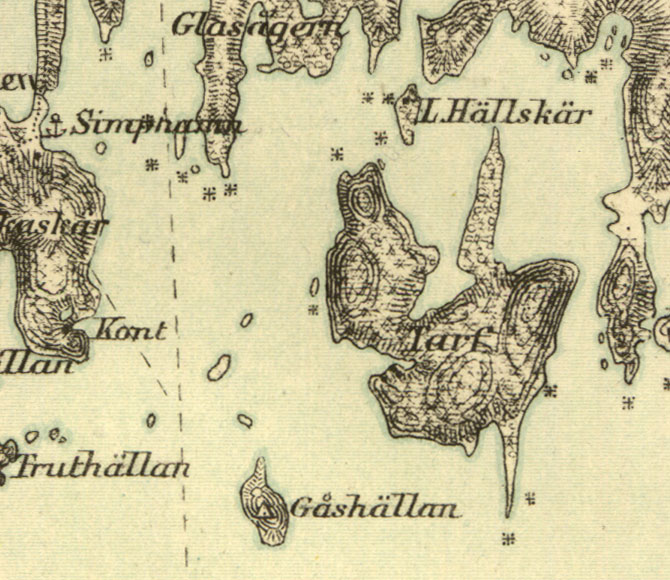 The island of Tarv off the coast of Västerbotten in Sweden